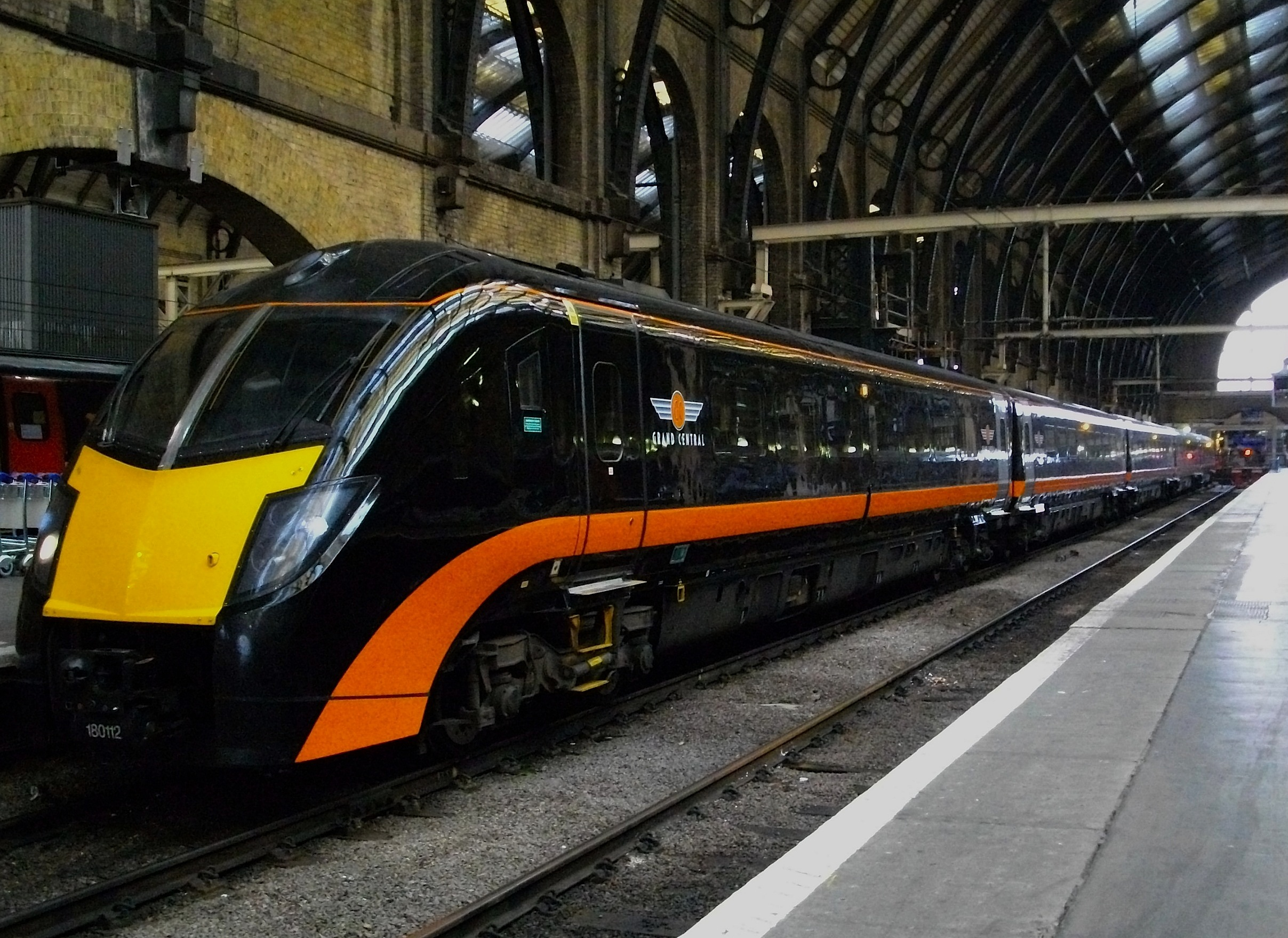 Grand Central Class 180 No. 180112 at London Kings Cross.